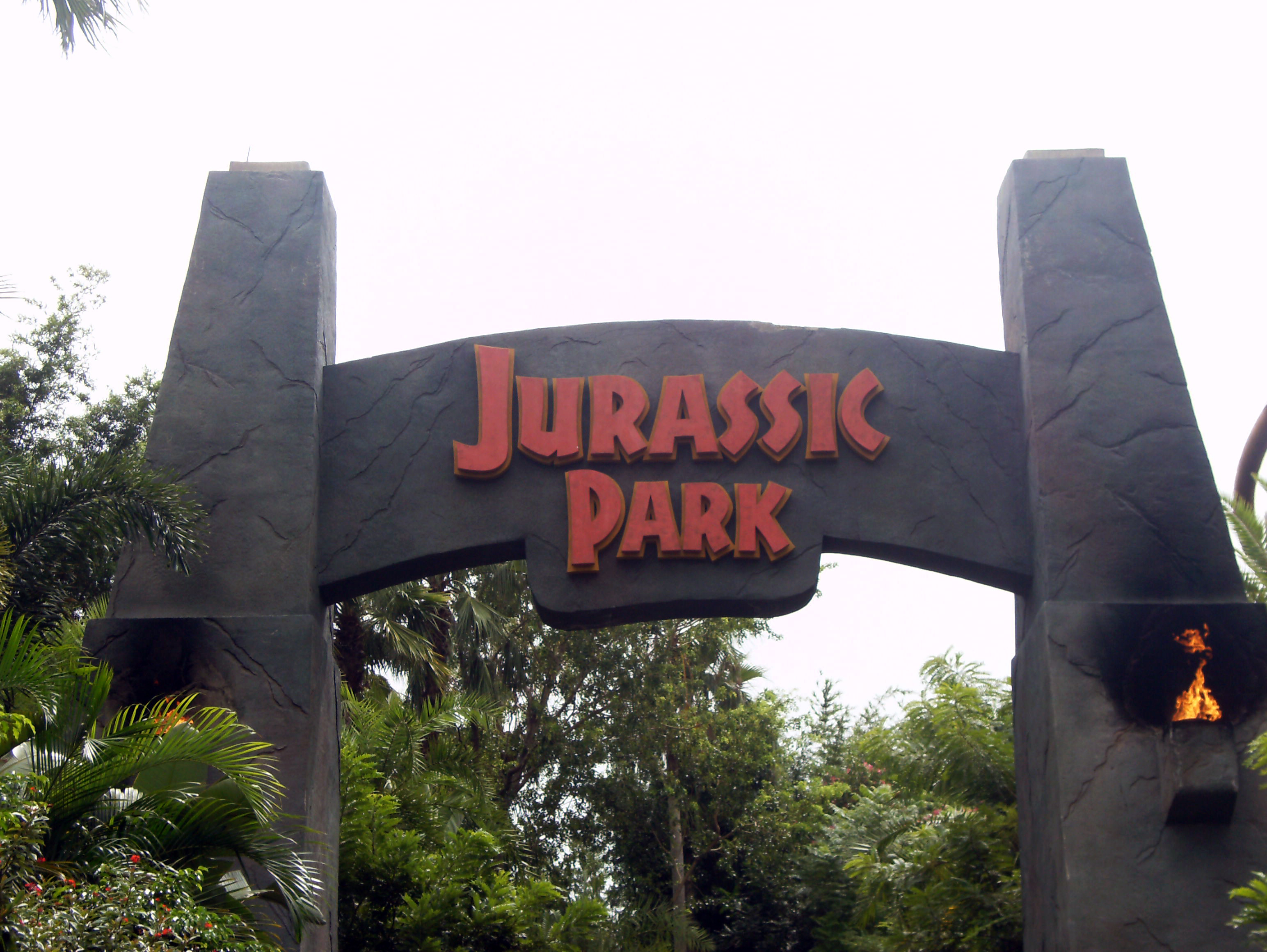 The entrance to the Jurassic Park region of Islands of Adventure